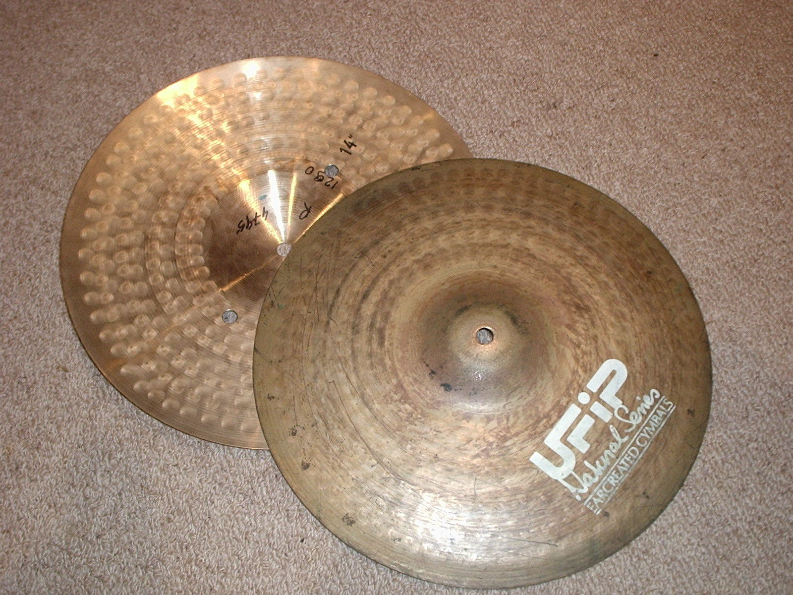 UFIP Naturals 14" hi-hats serial #4795, 1100g top 1290g bottom, with small vents